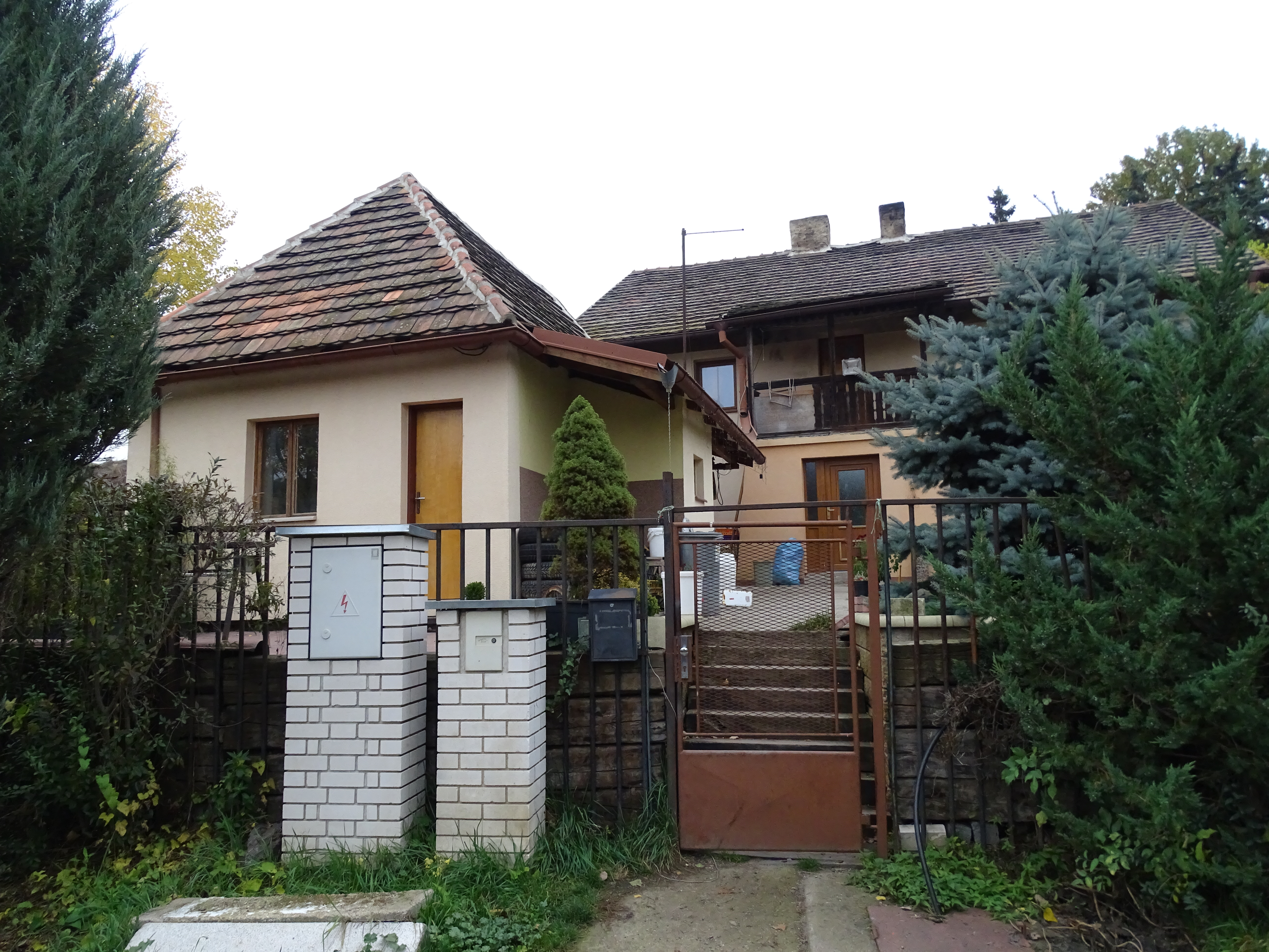 Prague-Troja, Czech Republic. V Podhoří 274/3.